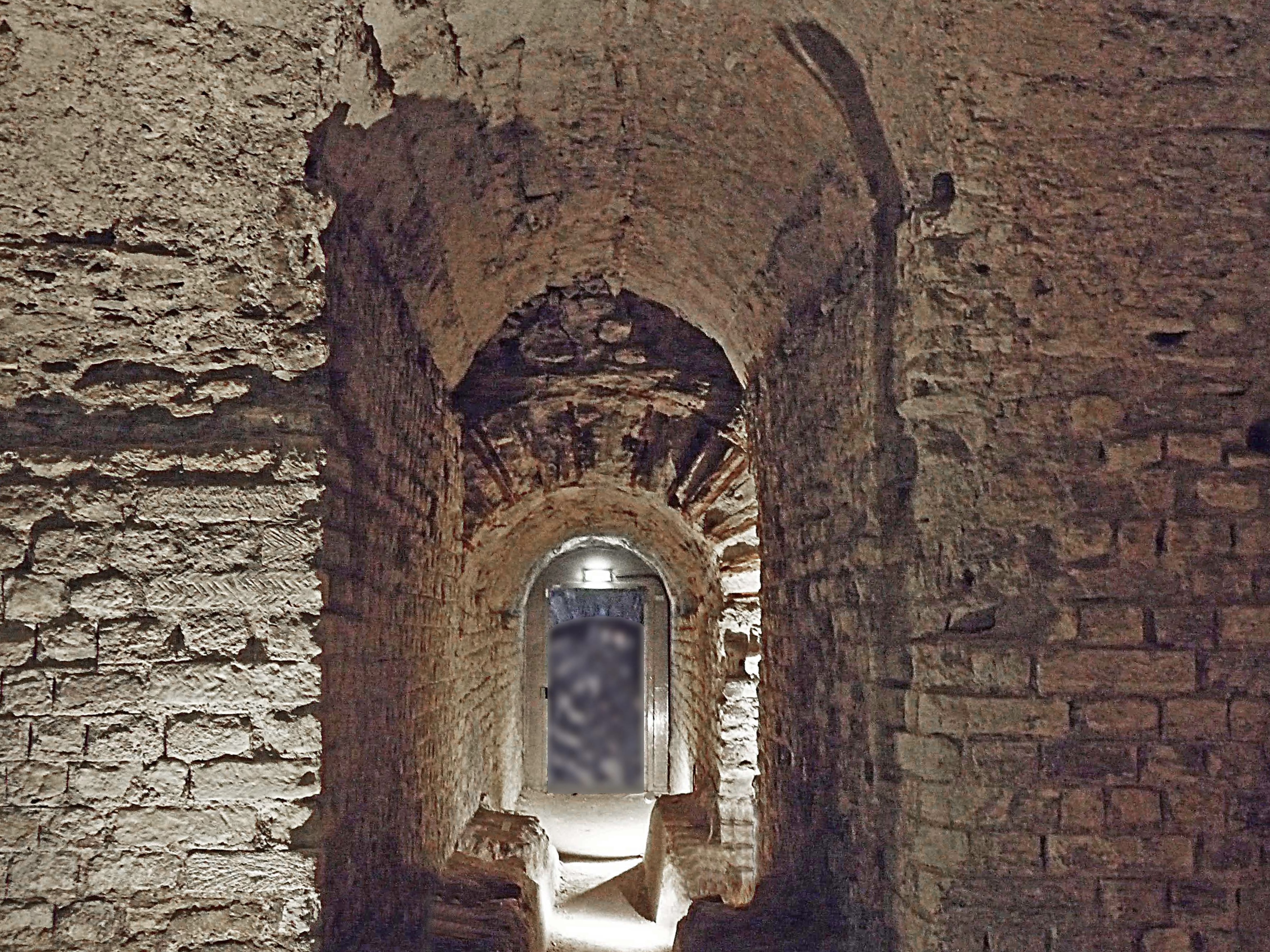 Lutèce. Thermal baths of Cluny. northern part of the main sewer.